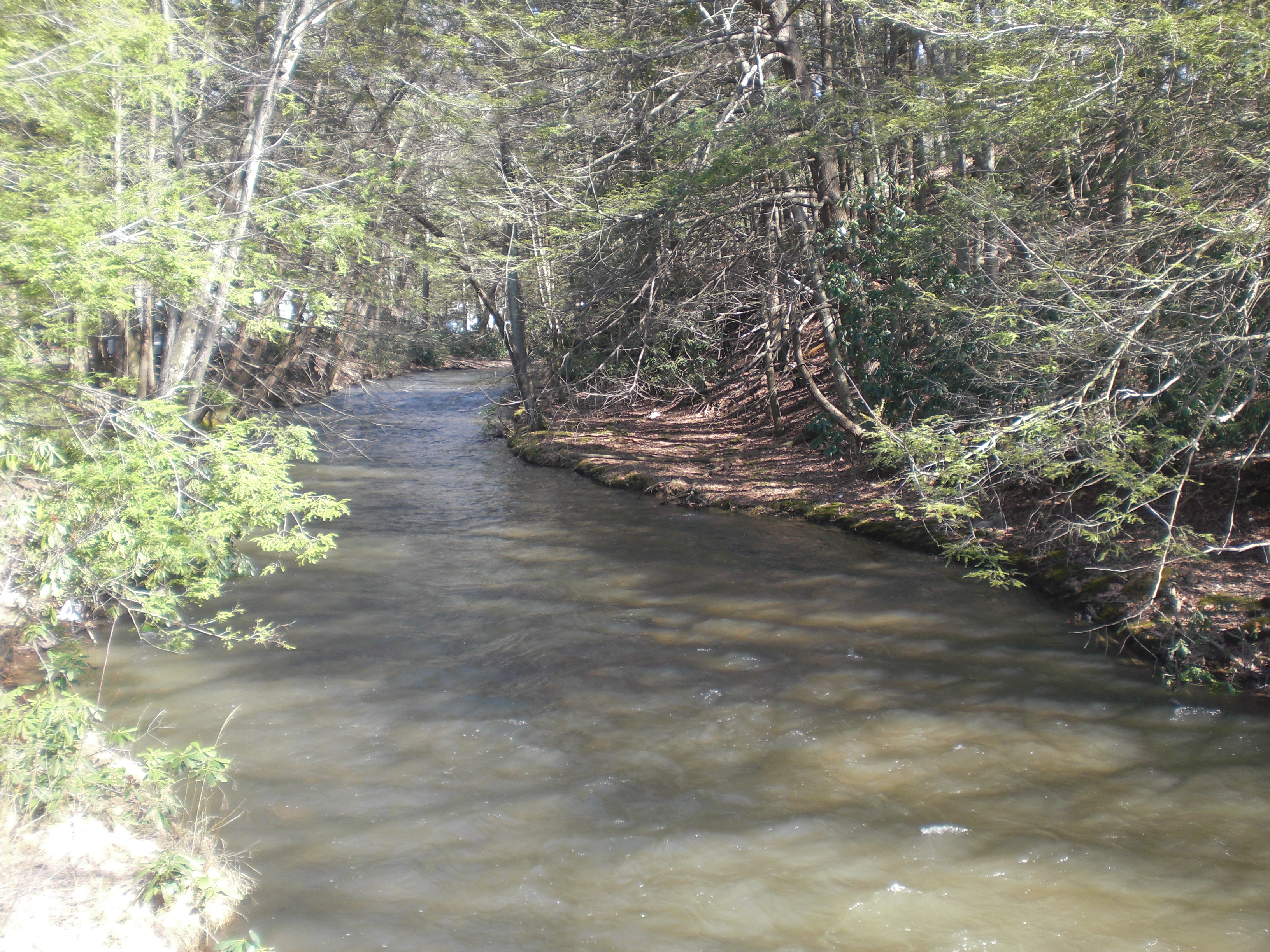 Tomhicken Creek from Red Ridge Road near its mouth.